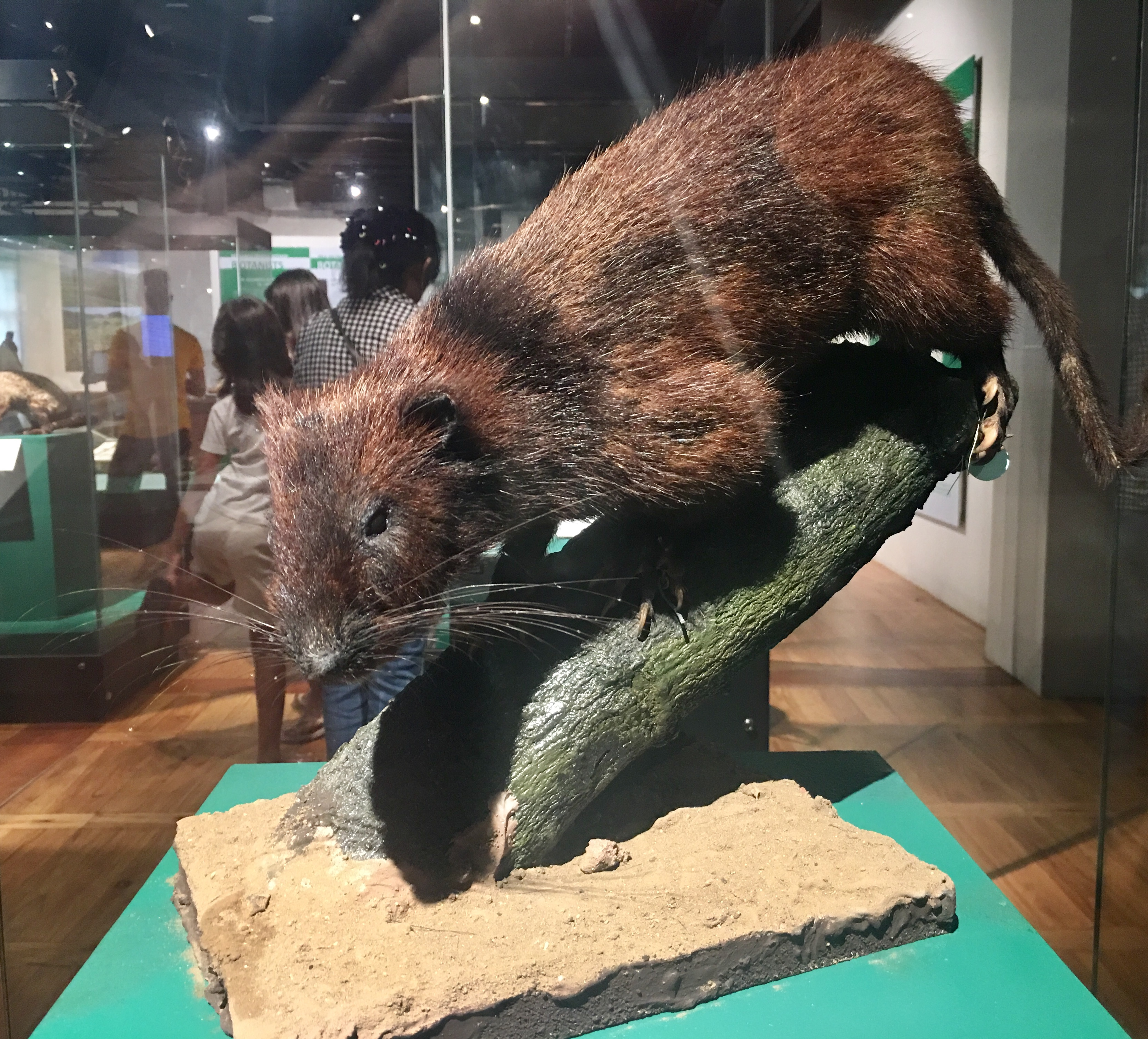 Taxidermied Northern Luzon Giant Cloud Rat displayed at Philippine National Museum